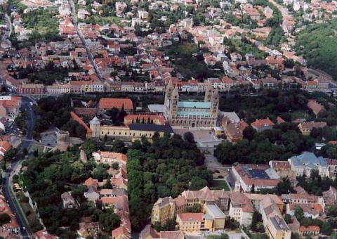 Pécs Hungary, aerialphotography